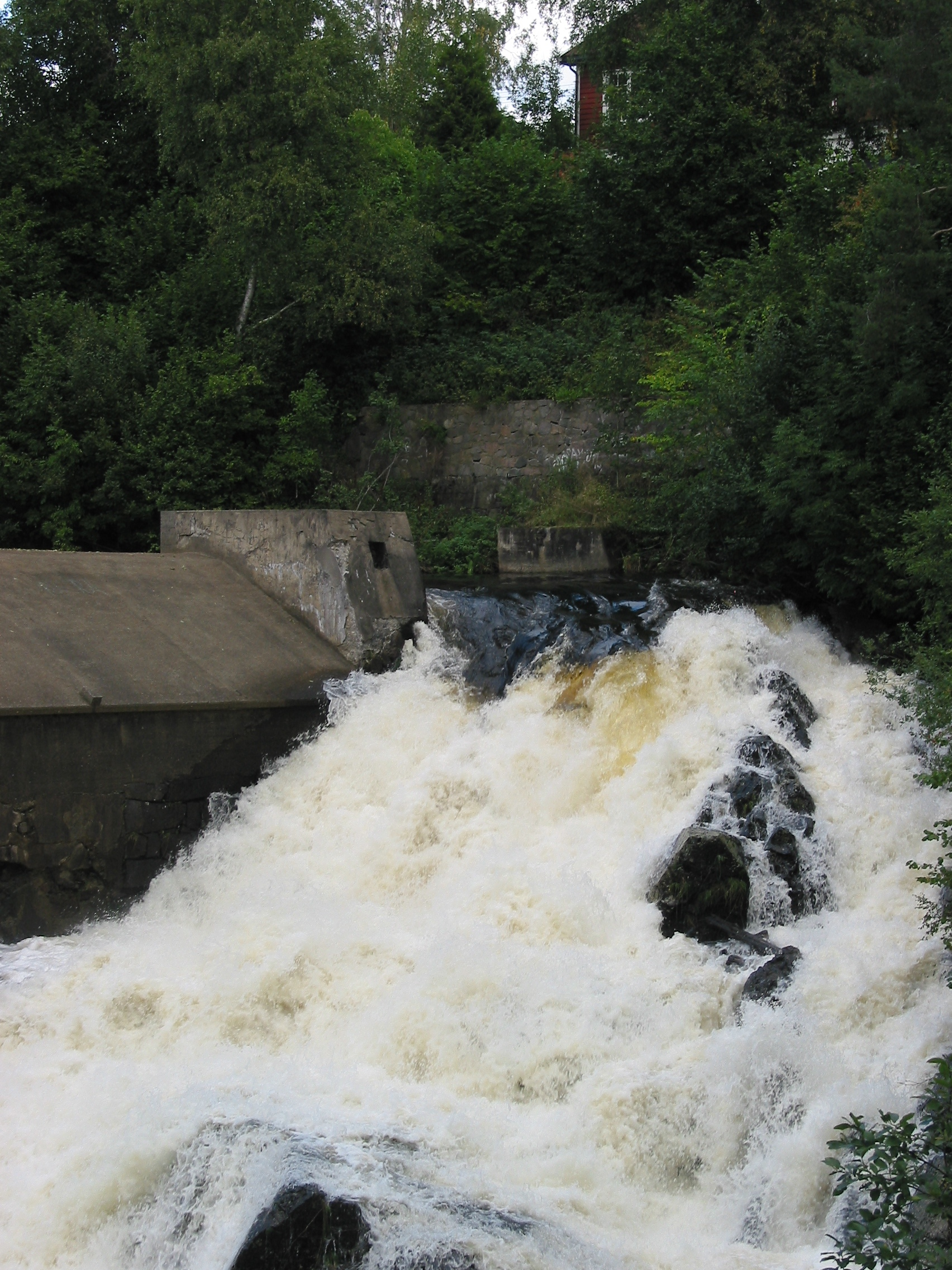 Grinifossen waterfall at Grini, Bærum, Norway.